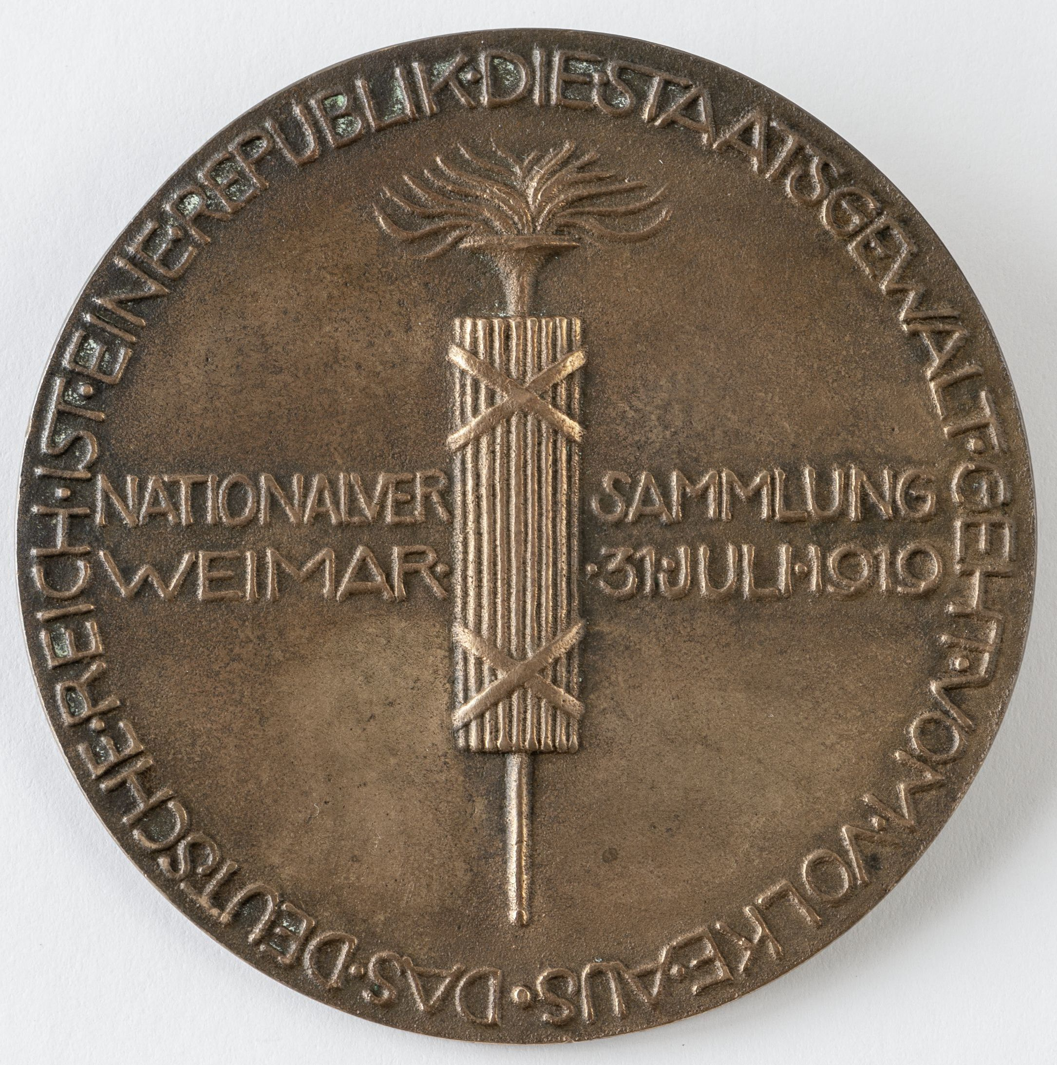 Memorial coin for the passage of the Weimar Constitution 1919 from the possession of the MP Johanna Tesch, front view, coin, metal, minted, 31.7.1919, Property of Sonja Tesch. Published in Dorothee Linnemann (ed.): Damenwahl! 100 Jahre Frauenwahlrecht. Begleitbuch zur Ausstellung. Societäts-Verlag, Frankfurt am Main 2018, ISBN 978-3-95542-306-3, p. 149.